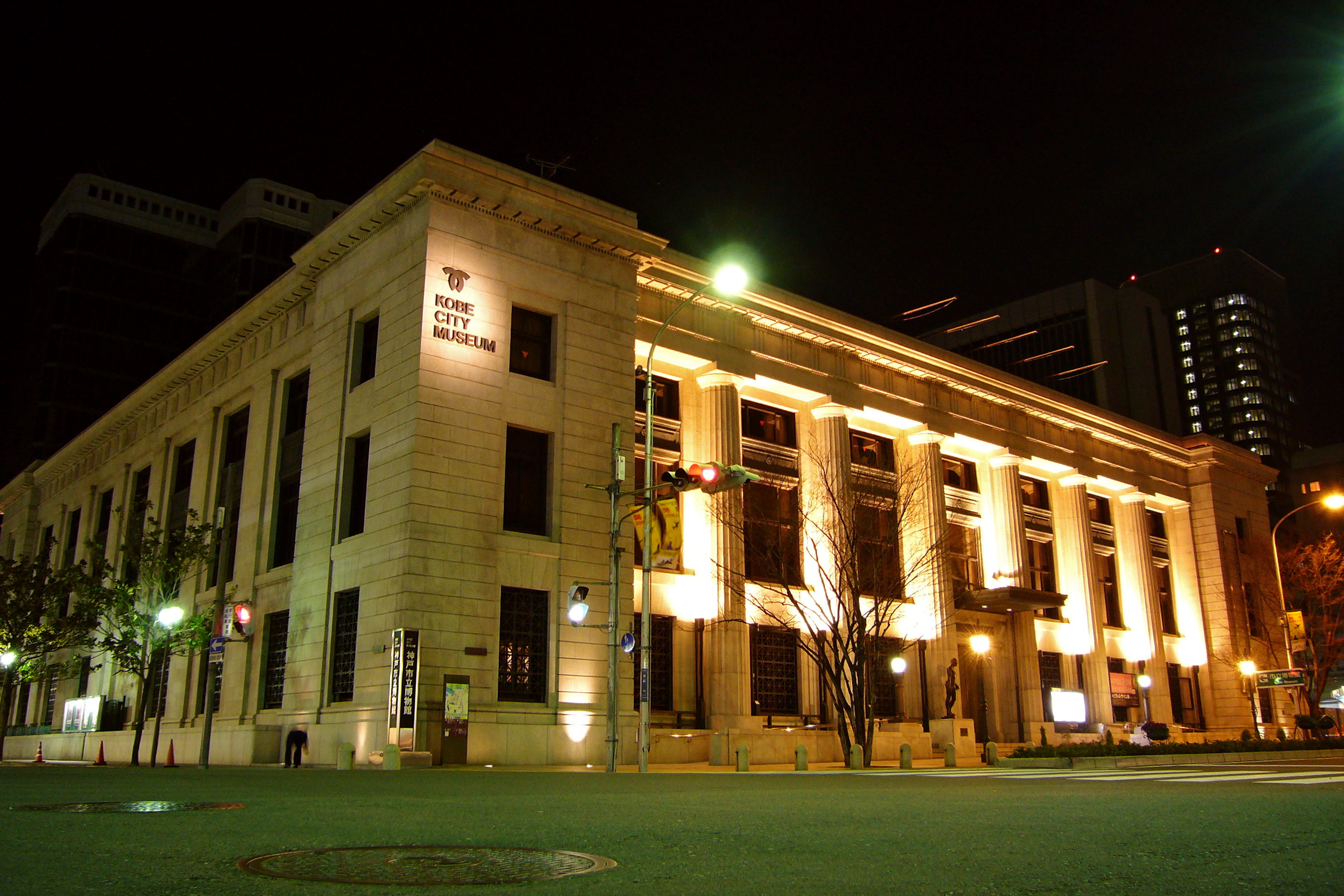 Kobe City Museum in Kobe, Hyogo prefecture, Japan